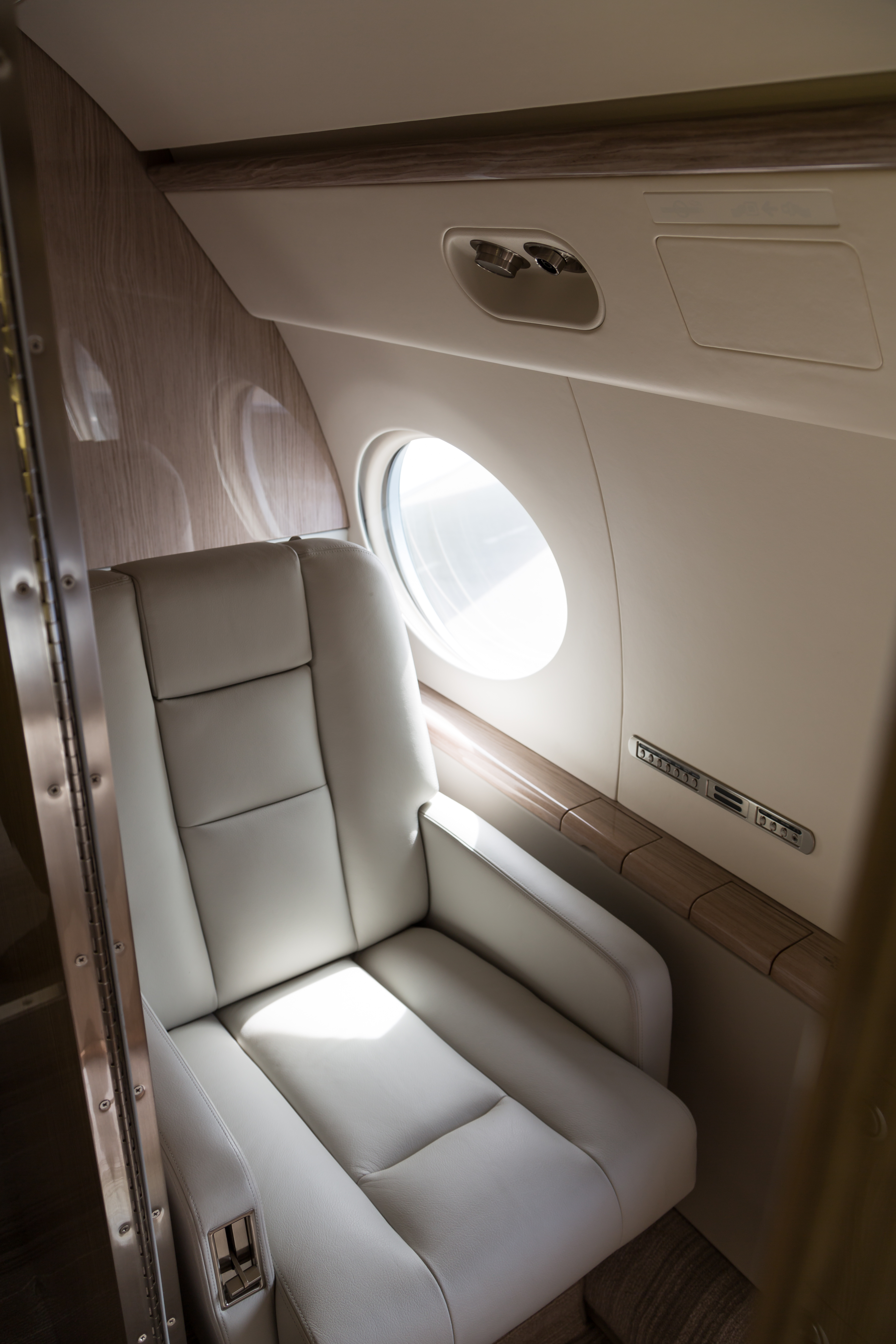 Crew rest abort a Gulfstream G550, EBACE 2018